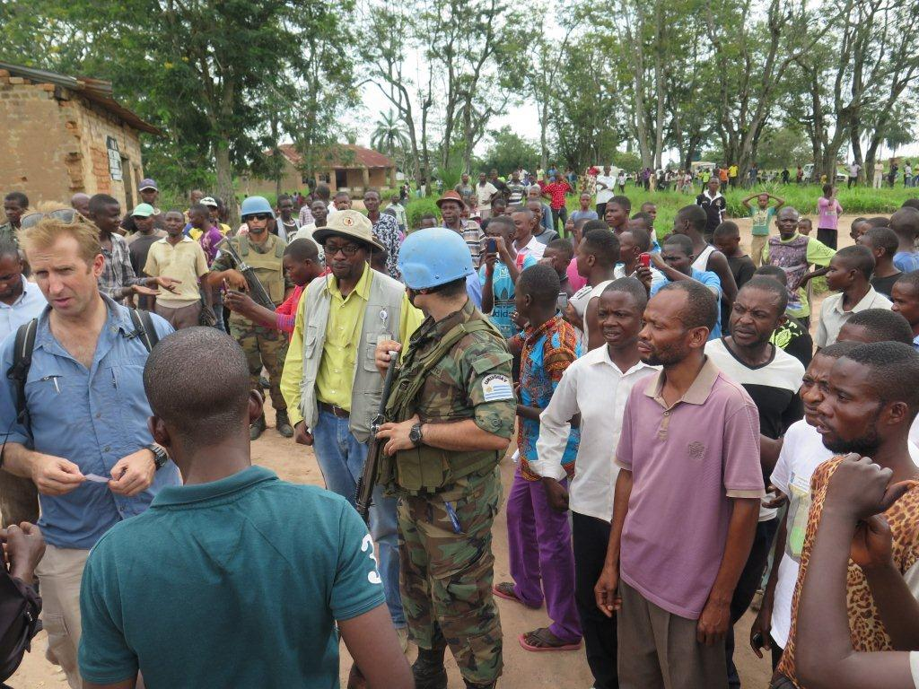 Kaisai Central Province, DR Congo: A MONUSCO mission assessing the security situation in Tshiaba, Kazumba territory, Mboi sector, some 174 km from Kananga, following in incursion by Kamuina Nsapu militiamen. Photo MONUSCO/Bilaminou Alao